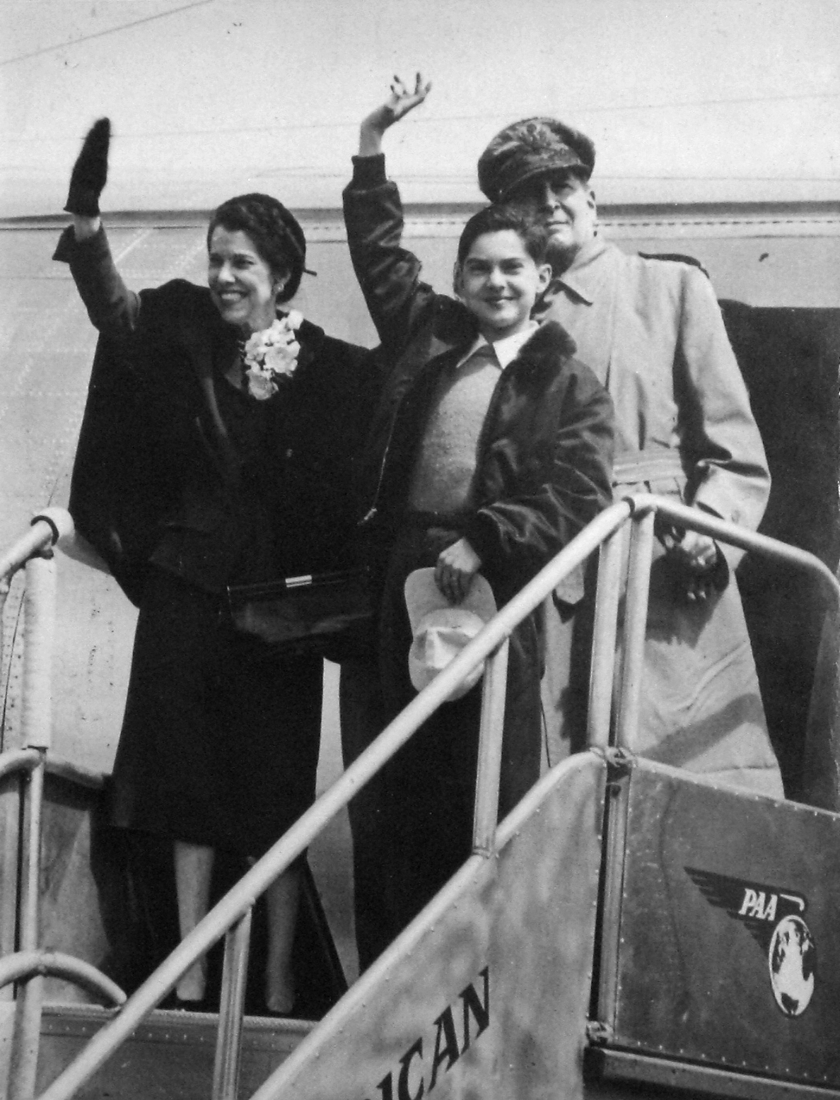 Photograph of Douglas MacArthur, his wife, and his son, returning to the Philippines in 1950 for a visit.